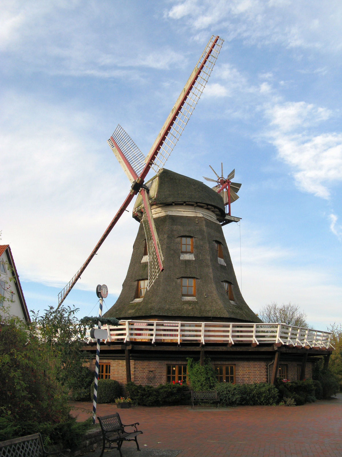 Windmill in Banzkow, Mecklenburg-Vorpommern, Germany